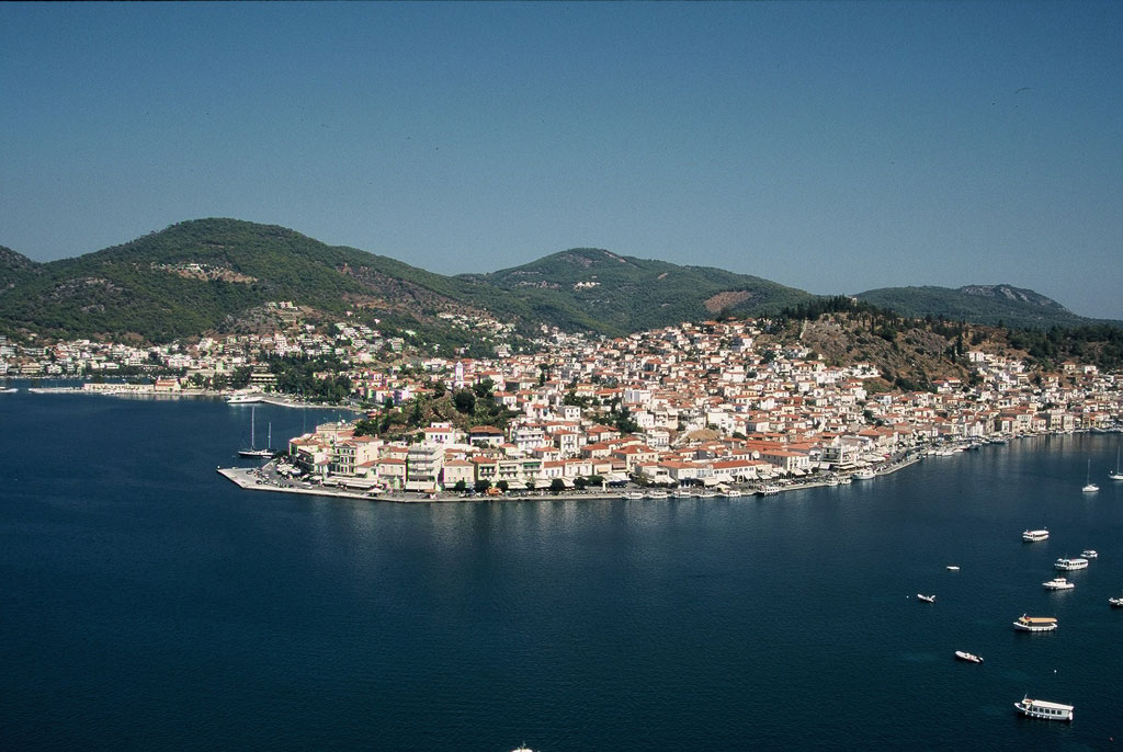 Aerial view of Poros